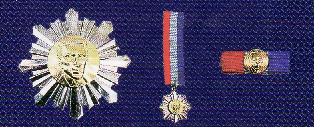 Badge and Ribbon of Order of Danica Hrvatska with the face of Nikola Tesla